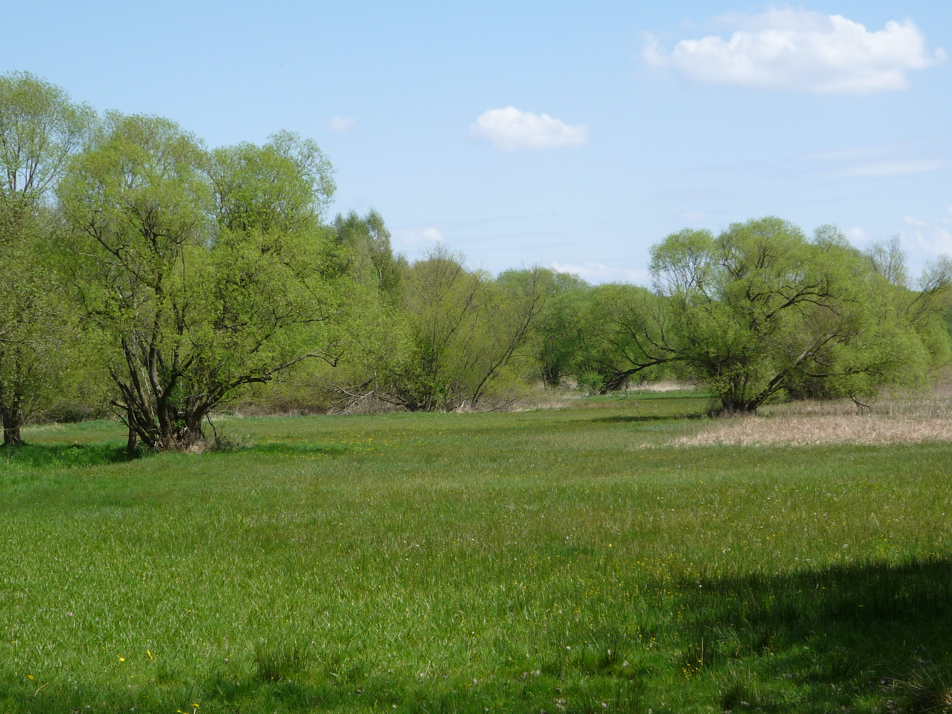 Meadows near Eisenhardt castle in Belzig